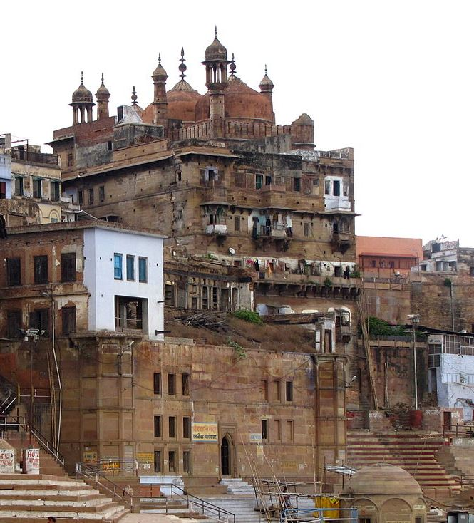 Alamgir Mosque by the Ganges ghats, Varanasi, known as Panchganga or Balaji Ghat. Varanasi, India, otherwise known as Beni Madhav Ka Darera, was constructed by the Mughal Emperor Aurangazeb, at the site where an ancient Vishnu temple was situated.